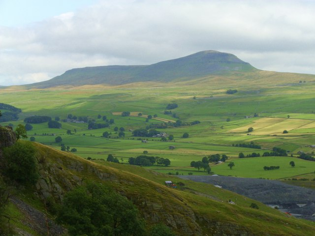 Across Ribblesdale from Moughton Nab Standing on the edge of the limestone scar at Moughton Nab, looking across an exposure of Horton Flags [foreground] towards Ribblesdale and the familiar shape of Pen-y-Ghent.